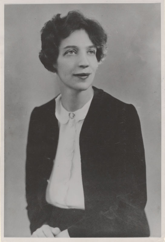 Title: Justine Wise Polier Creator: Unknown Medium: Black and white photograph Date: undated Call Number: P-572 Collection: Shad Polier Papers Repository: American Jewish Historical Society Rights Information: No known copyright restrictions; may be subject to third party rights. For more copyright information, click here. See more information about this image and others at CJH Digital Collections. Digital images created by the American Jewish Historical Society at the Center for Jewish History.